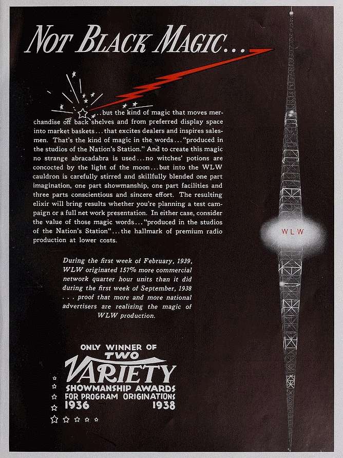 Promotional advertisement for radio station WLW in Cincinnati, Ohio